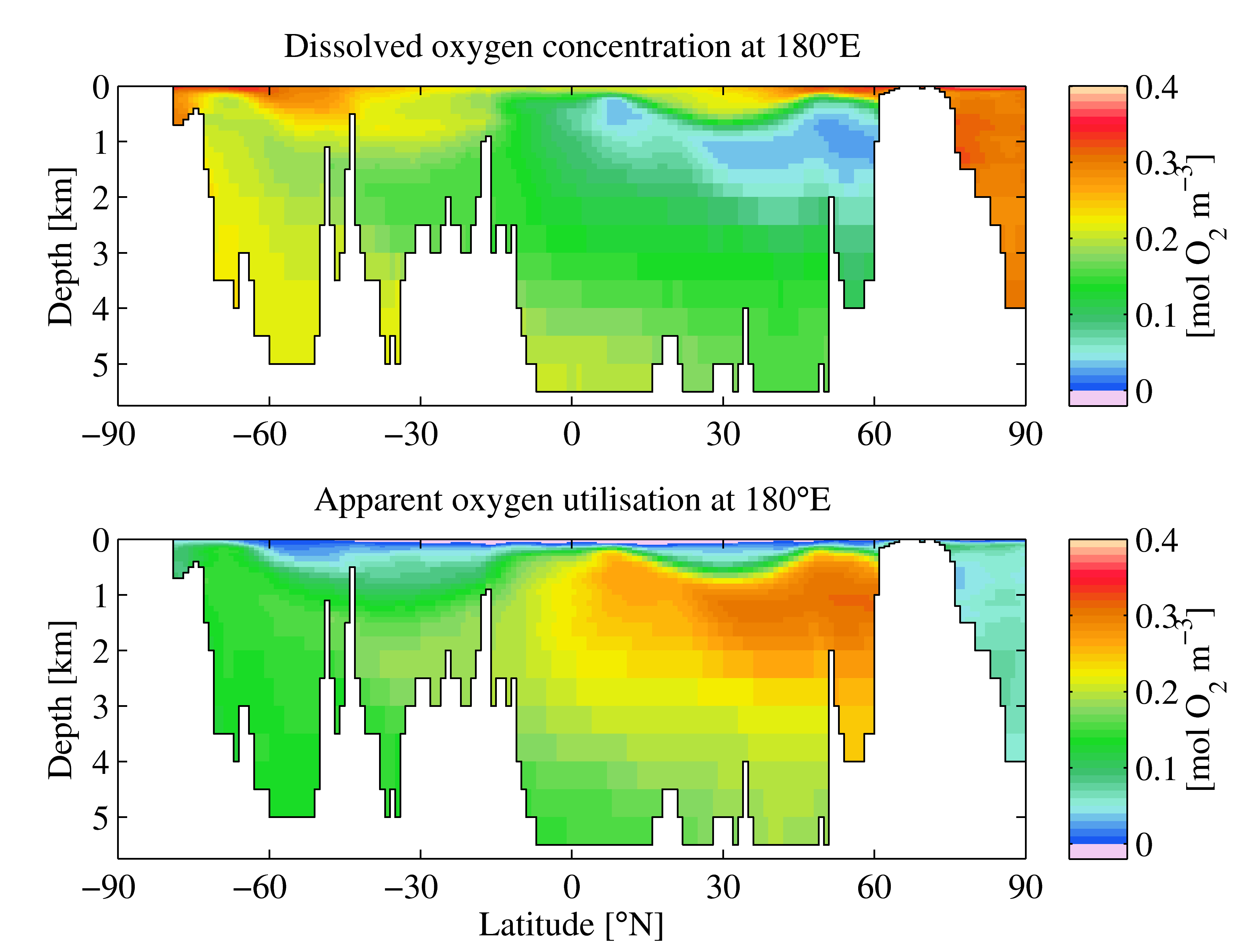 Annual mean dissolved oxygen (upper panel) and apparent oxygen utilisation (lower panel) from the World Ocean Atlas 2009. The data plotted show a meridional section running north-south at 180°E (approximately the centre of the Pacific Ocean). White regions indicate section bathymetry. The plot was produced using MATLAB. While dissolved oxygen concentrations are necessarily always positive, apparent oxygen utilisation can be both positive and negative (shown here in pale magenta). Positive values indicate regions where oxygen has been consumed to concentrations below its equilibrium saturation concentration. Negative values indicate regions in which the dissolved oxygen concentration is elevated above its equilibrium saturation concentration, typically in near-surface euphotic waters by primary production and the resulting oxygen evolution.